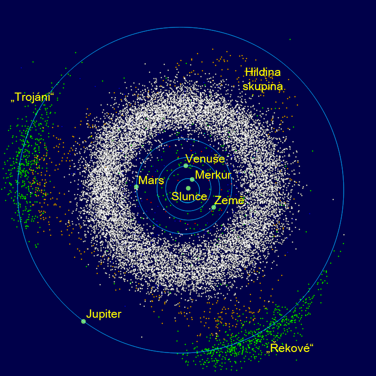 The inner Solar System, from the Sun to Jupiter. Also includes the Main Asteroid Belt (the white donut-shaped cloud), the Hildas (the orange "triangle" just inside the orbit of Jupiter) and the Jovian Trojan's (green). The group that leads Jupiter are called the "Greeks" and the trailing group are called the "Trojans"